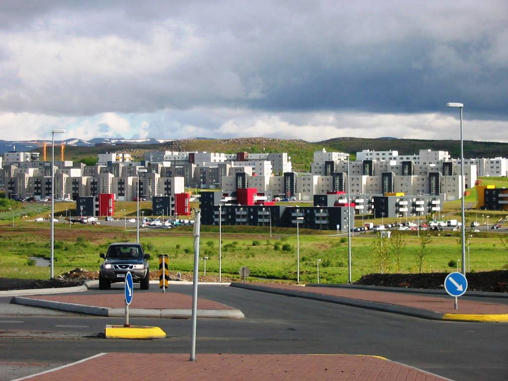 View over the new areas of Grafarholt, Reykjavik, Iceland